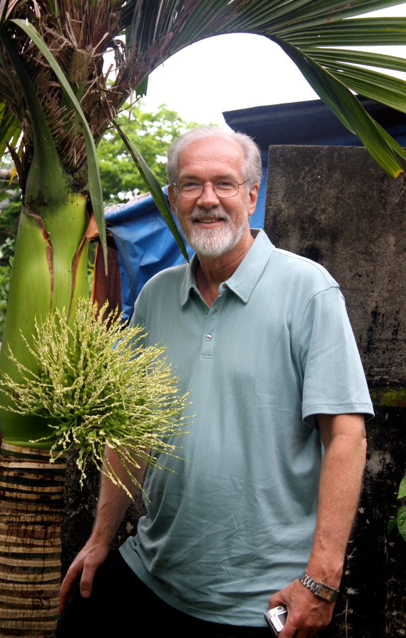 Paul Hoover at Dong Thai village, Hatinh, Vietnam in Nguyen Trai's poetry touring 2011.